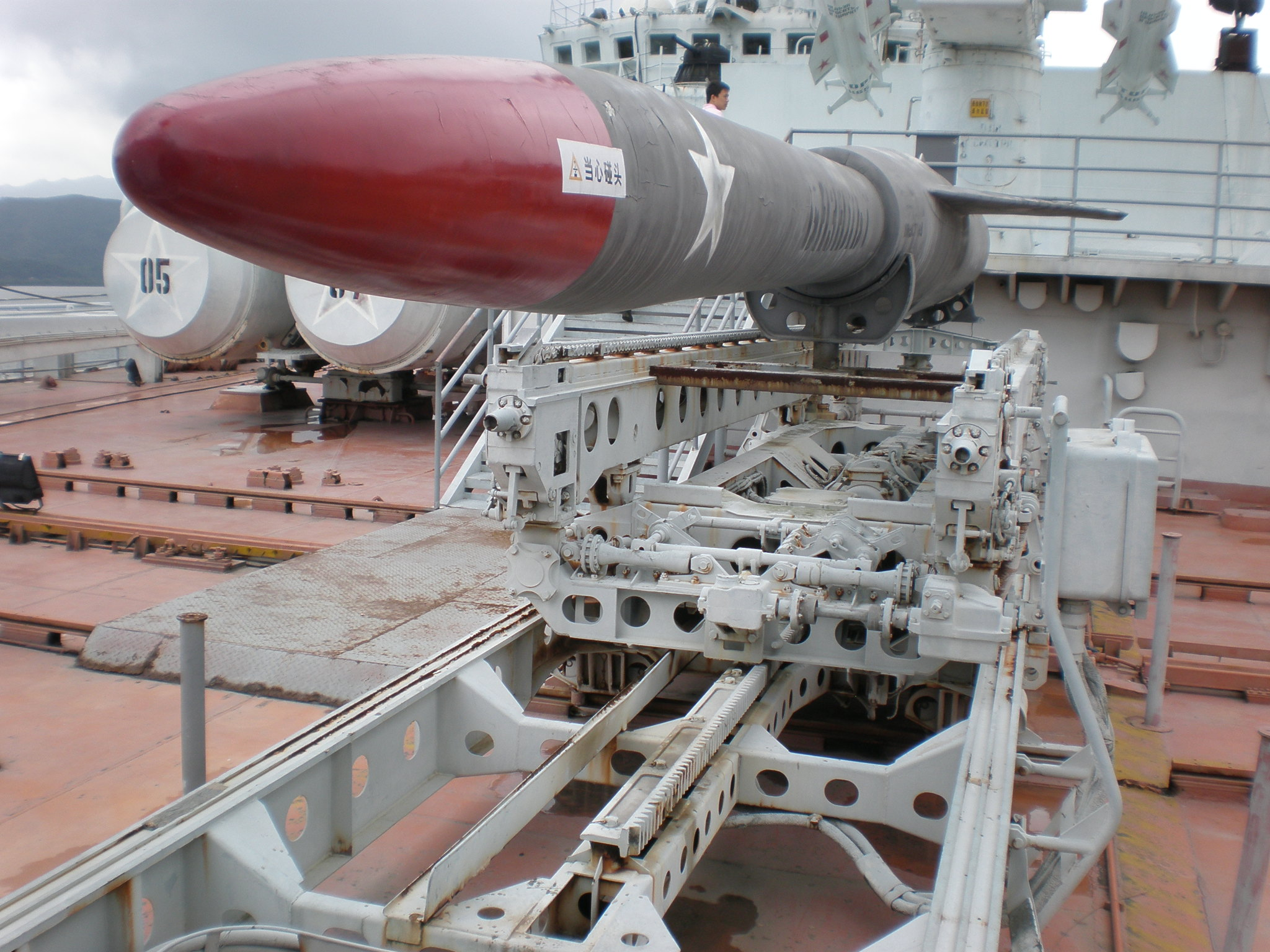 An SS-N-12 Sandbox on a missile truck on the bow of the aircraft carrier Minsk, located at the Minsk World theme park in Shenzhen, PRC.